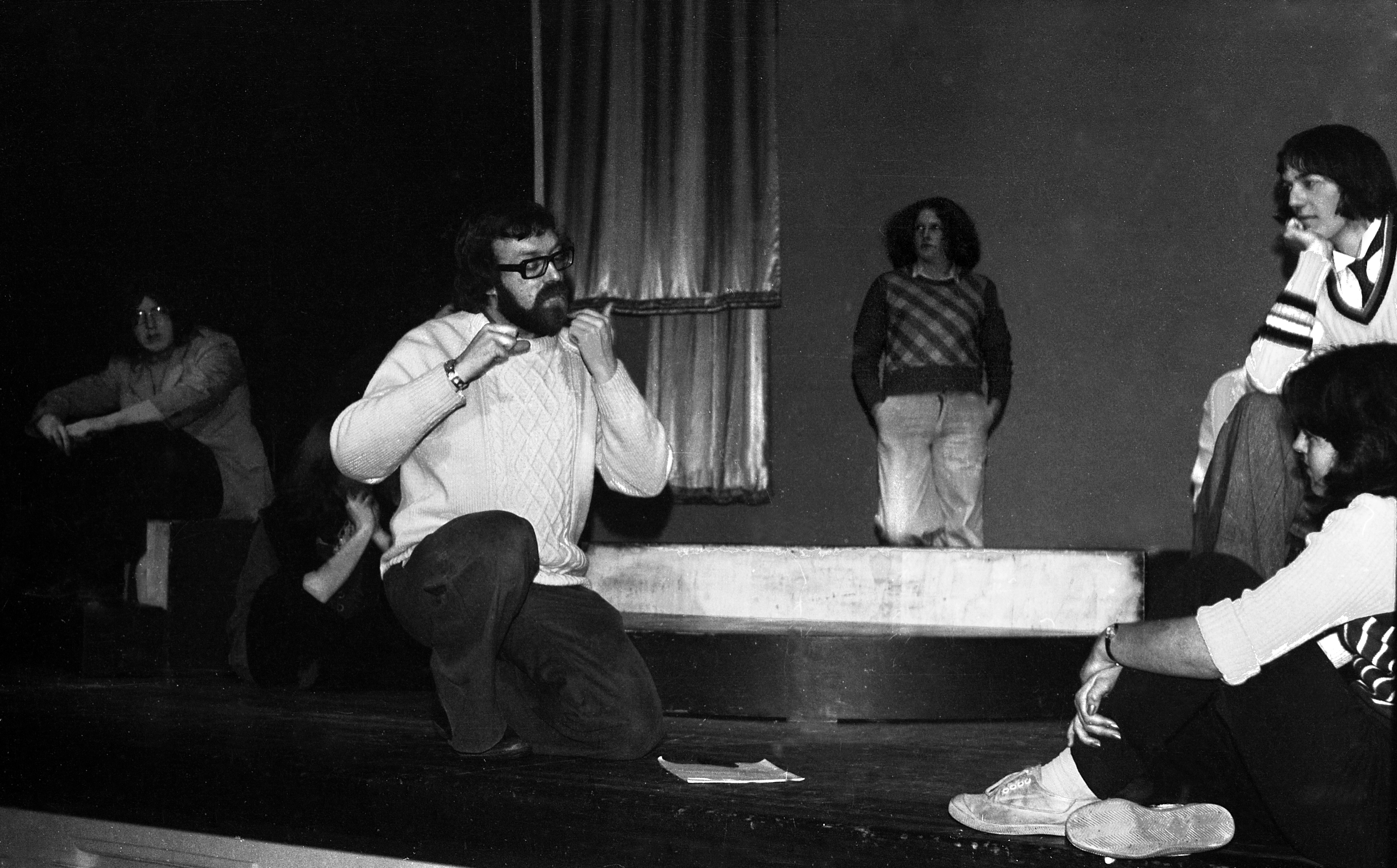 photo of rehearsals for a college production of A Midsummer Night's Dream, starring Stephen Fry